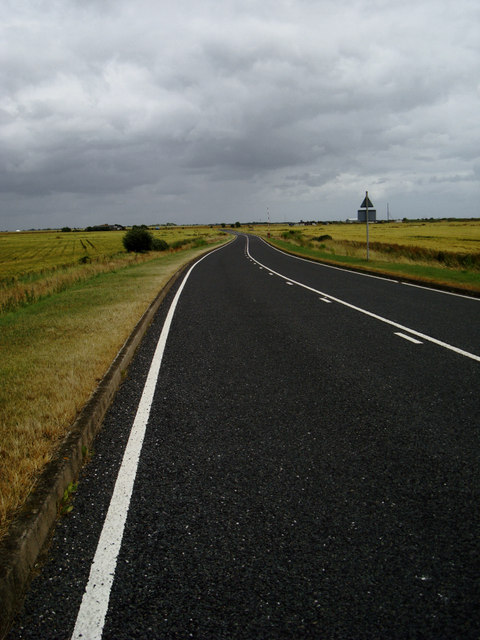 Road over New England Island MOD controlled access.